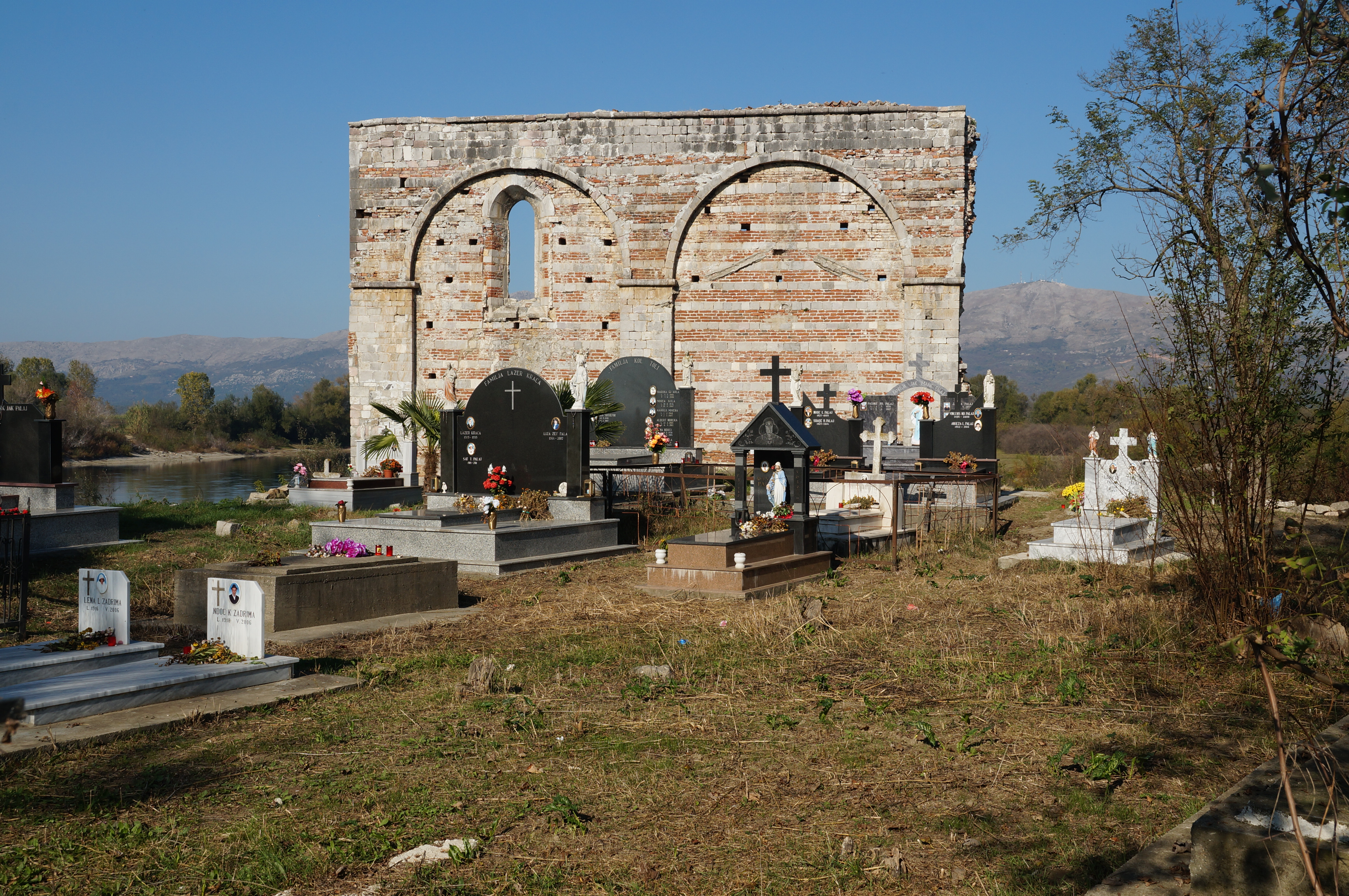 The ruins of the Church of Shirgj from South with the local cemetery